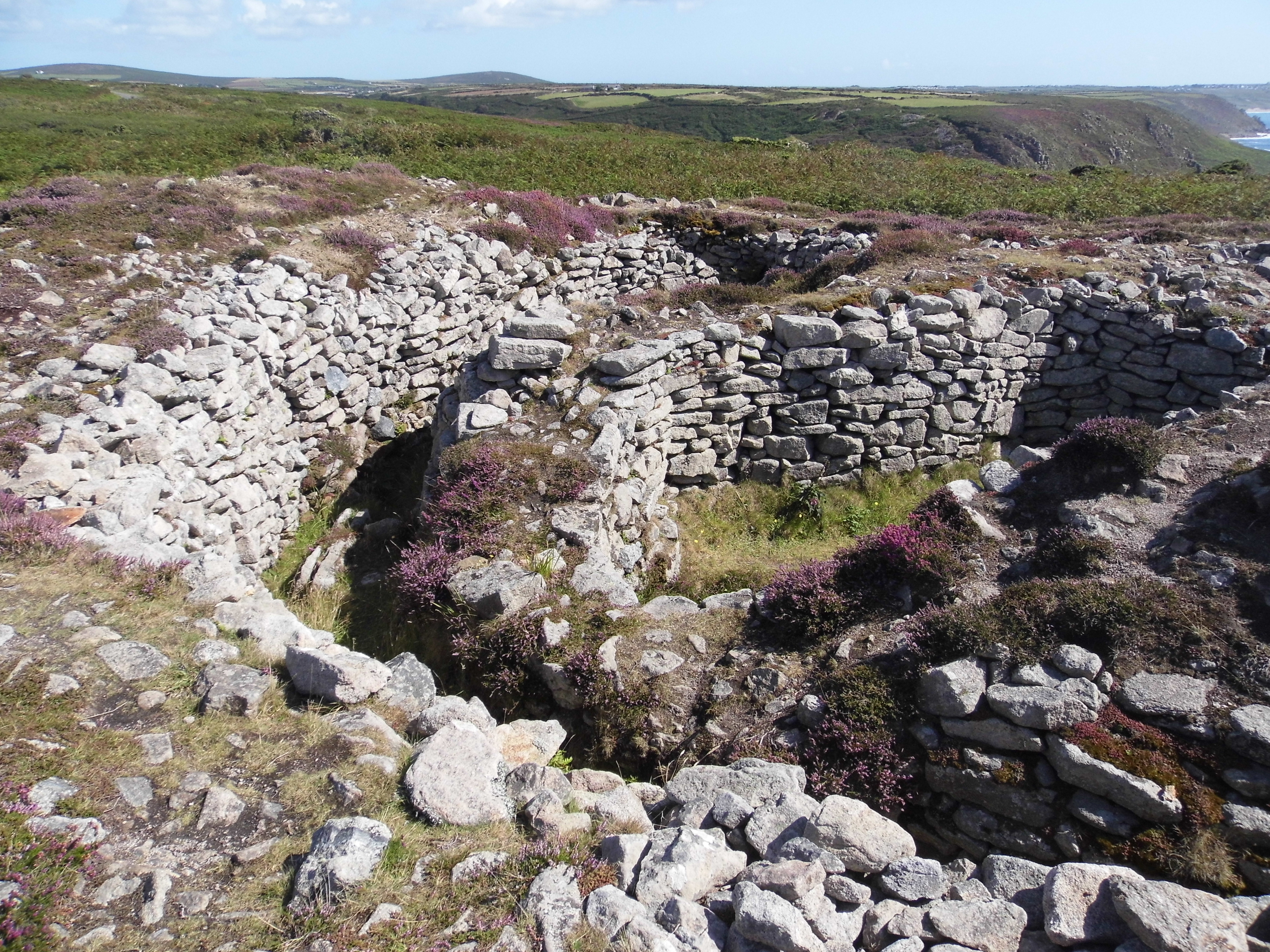 The Ballowall Barrow incorporating entrance grave, cairn, ritual pits and cists 420m WSW of Bollowal Farm Wikidata has entry Q17678450 with data related to this item.